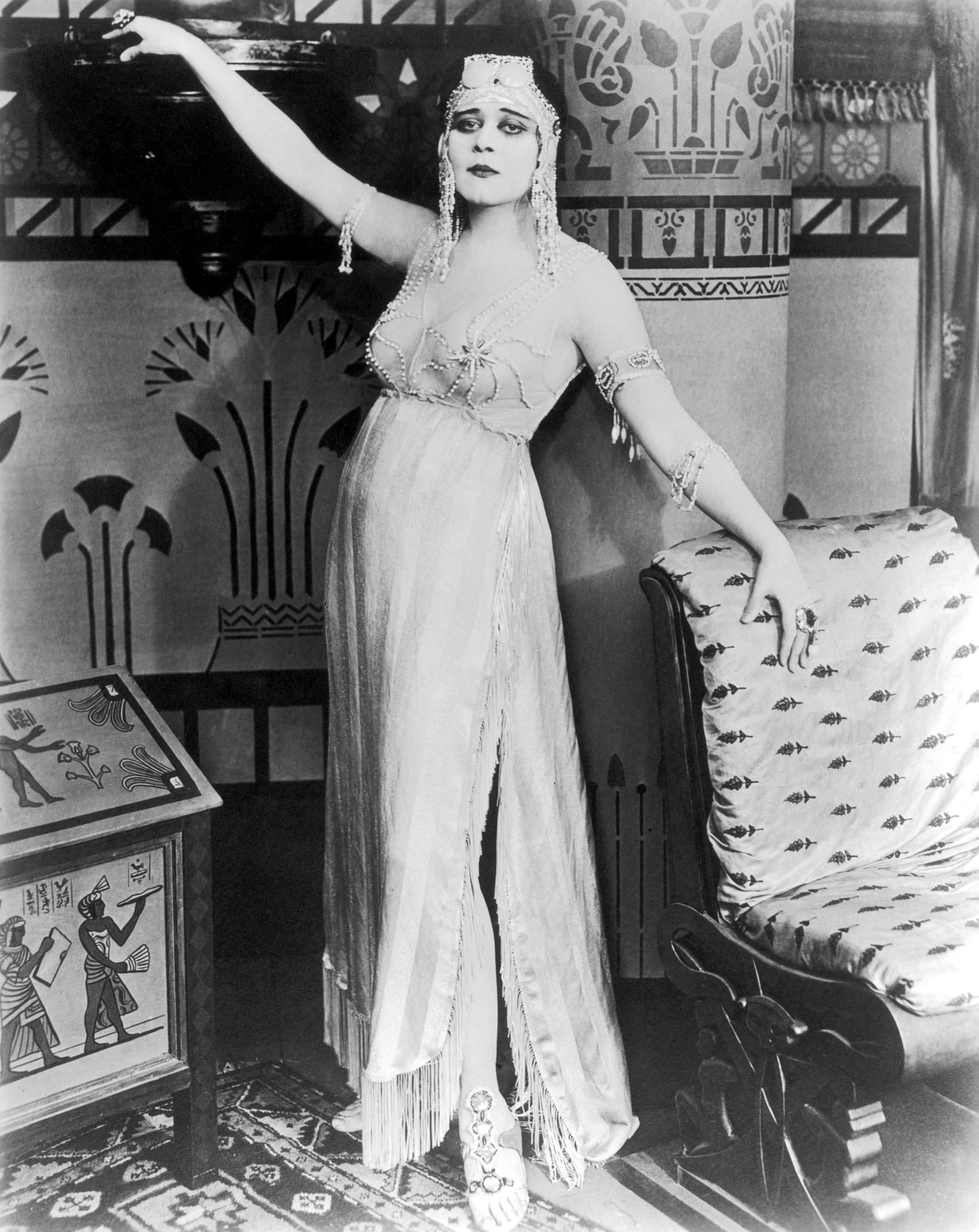 Actress Theda Bara in one of her famous risque costumes in a promotional still from the 1917 film Cleopatra, which has since been lost.